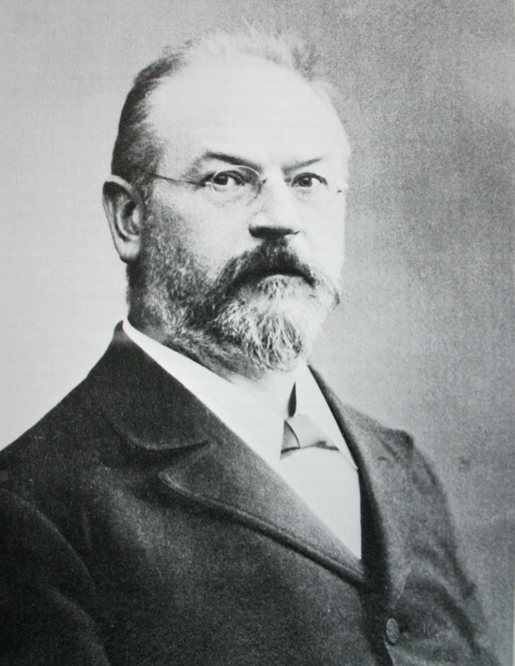 Photo portrait of Herman Gottfried Breyer (1864-1923), Dutch-born South African botanist, collector and museologist, Director of Transvaal Museum, Pretoria